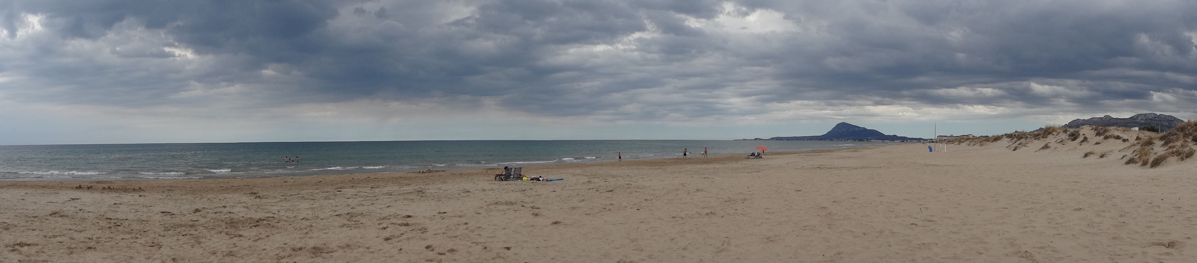 Panoramic view of the Mediterranean Sea and Beach in Oliva, Valencia Region of the Spain